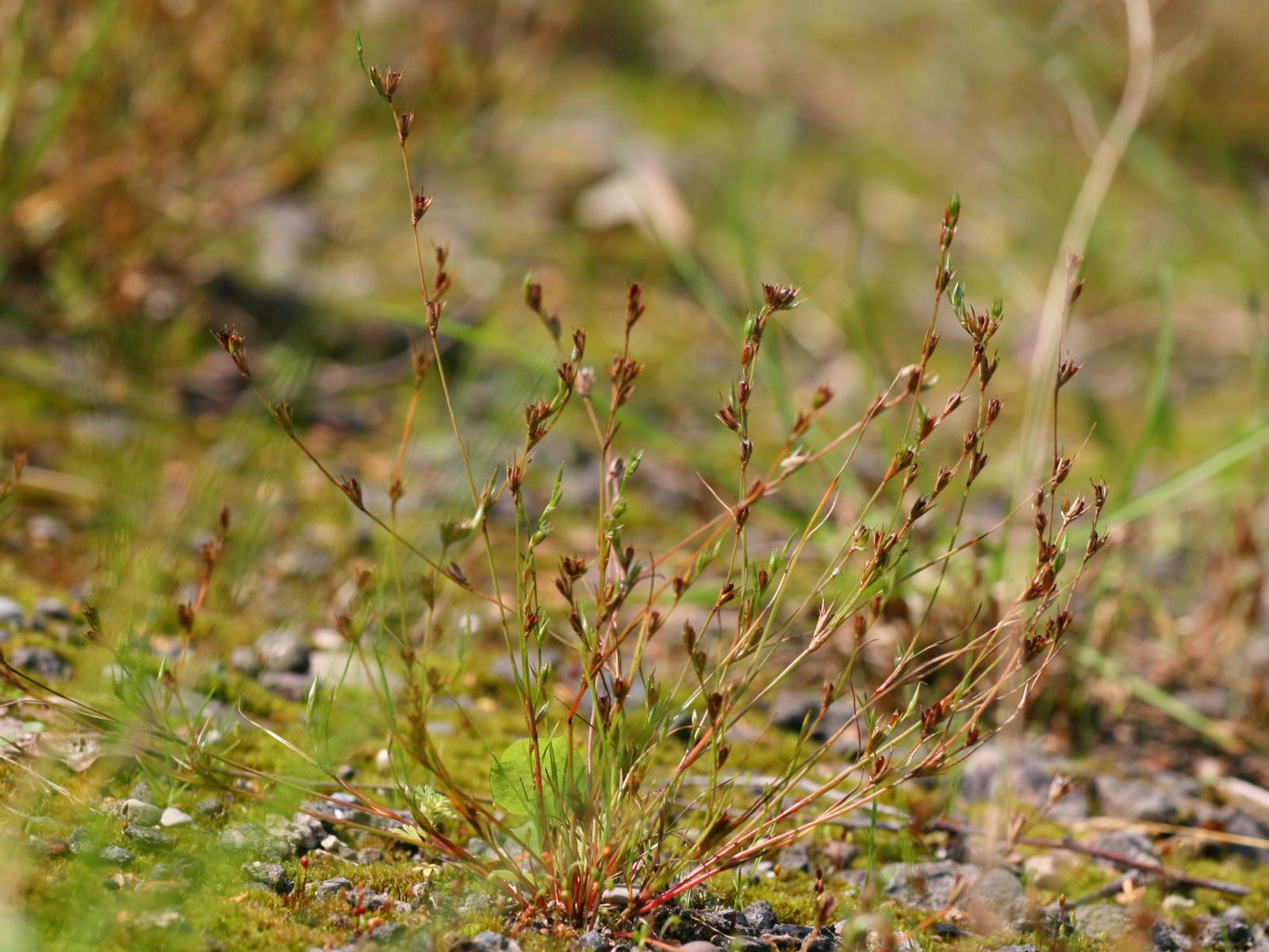 Frosch-Binse (Juncus ranarius)